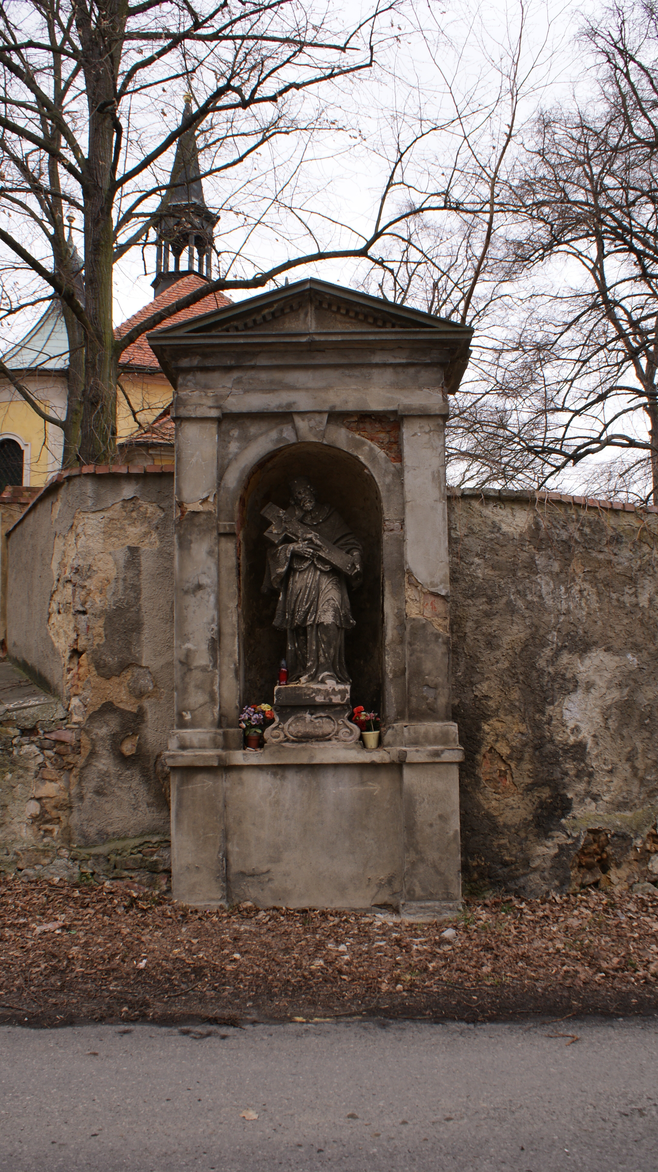 Chapel of John of Nepomuk in Liteň